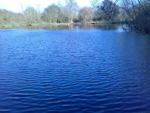 Lily Pond , Dagnam Park An oasis on the edge of Hatters Wood, Harold Hill, Romford. The M25 is about one kilometre beyond the far trees.